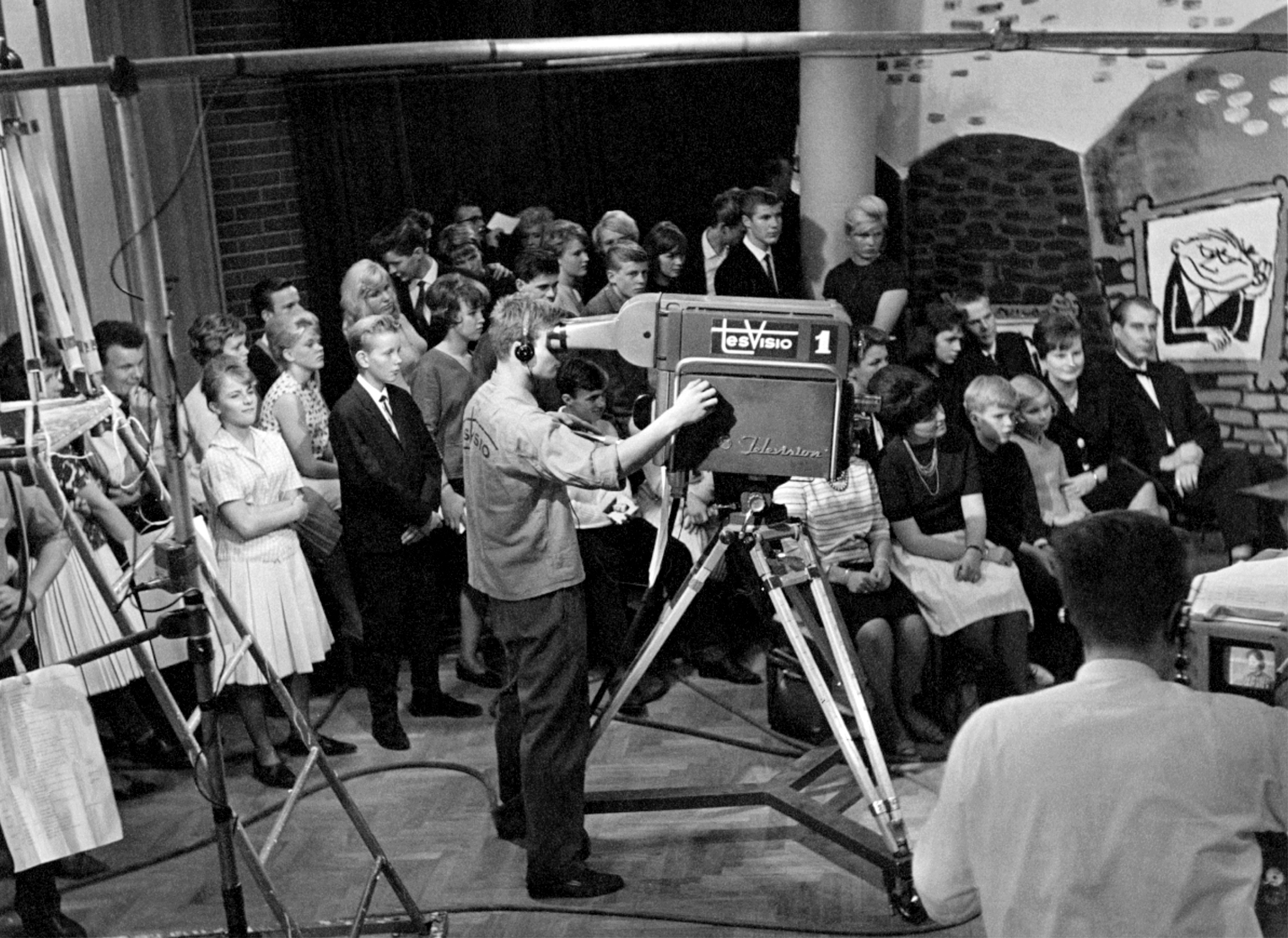 Tesvisio, 1957-1965, the first television channel in Finland. Music show for juvenile audience under way. Finnish Broadcasting Company bought Tamvisio in 1964 and Tesvisio in 1965 and together the channels merged as Yle TV2. Tesvision Ratakadun studiolla tehdään "Nuorten tanssihetki" -ohjelmaa. Kameramies työssä.